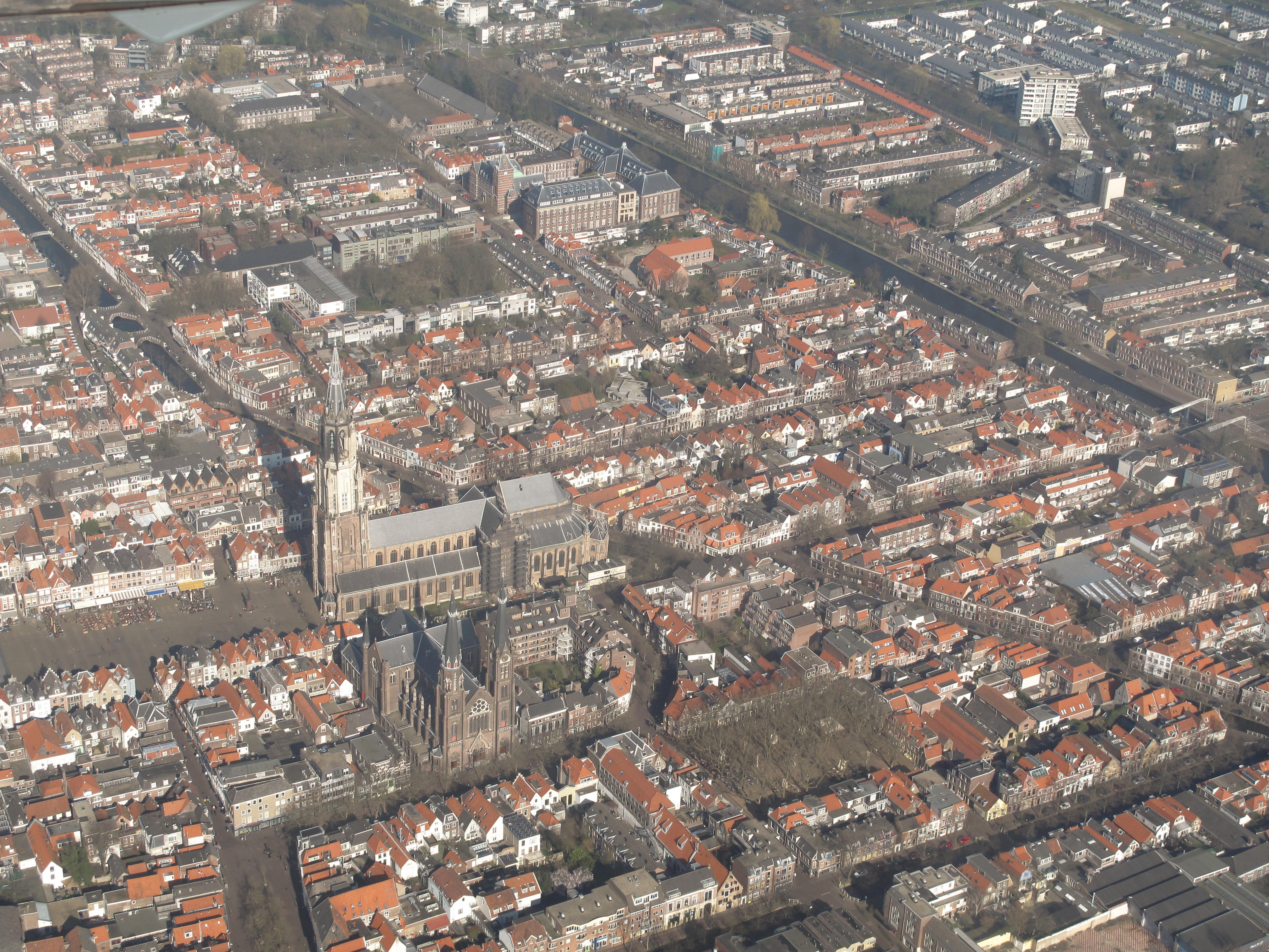 Delft, center